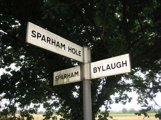 If you know a better hole, go to it! Signposts may only be supplemental but they can give a real feeling for the area. This one points off the road to a footpath through the woods to the edge of 527962